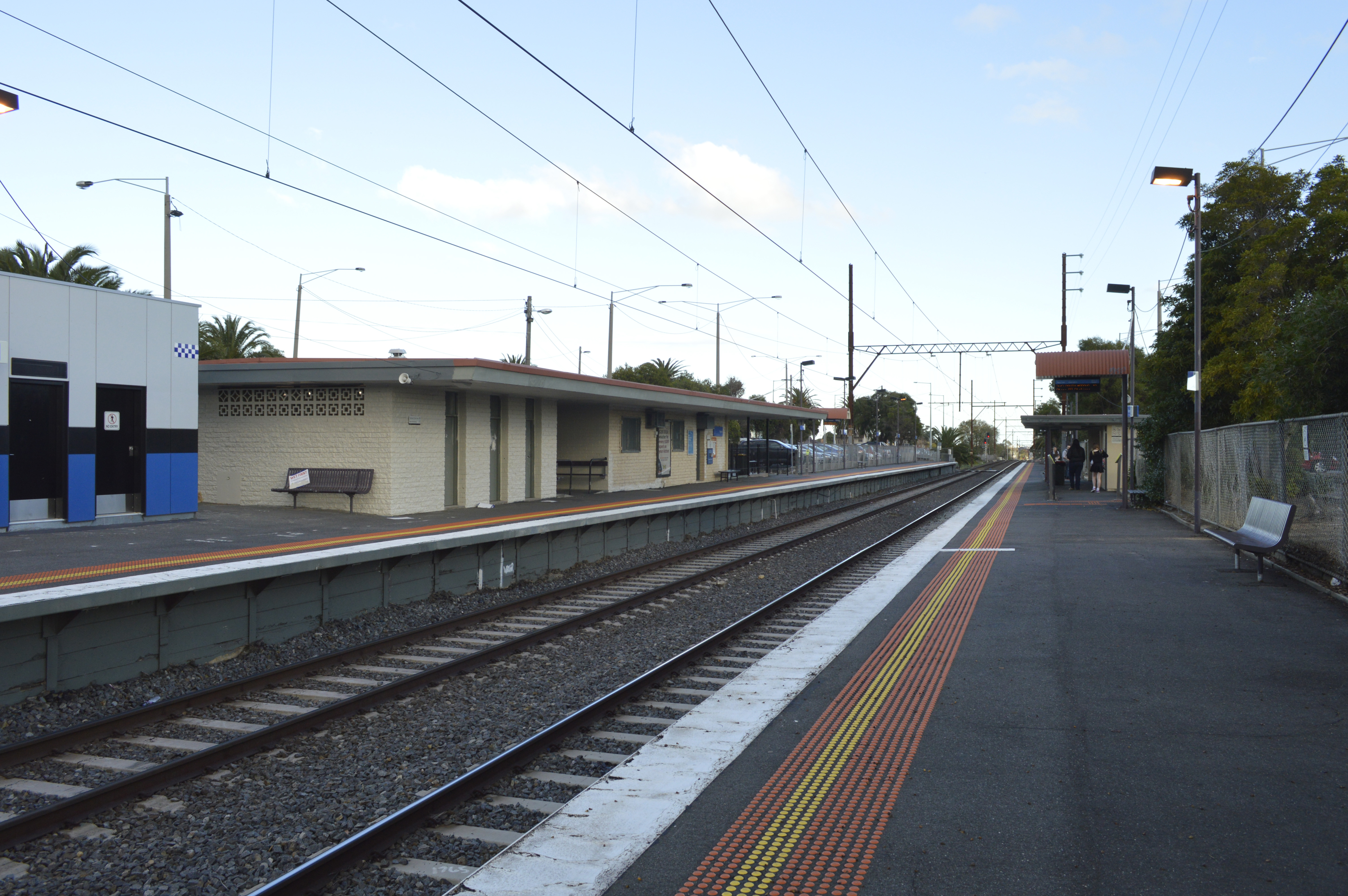 View from platform 2 looking towards Melbourne